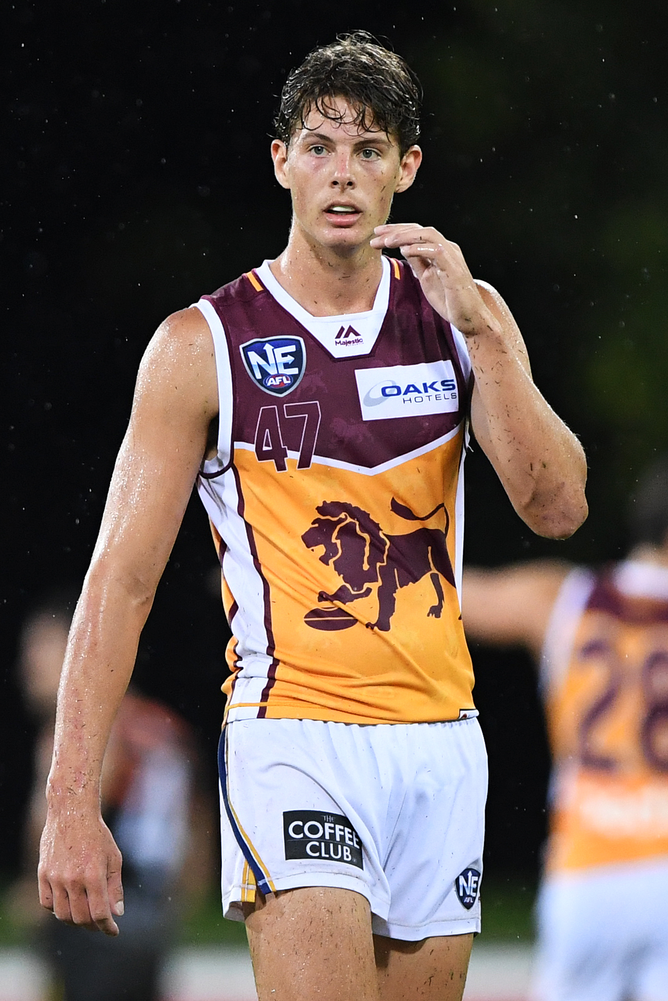 Tom Fullarton of the Brisbane Lions during the NEAFL round one match between NT Thunder and Brisbane Lions at TIO Stadium on 6 April 2019 in Darwin, Australia.